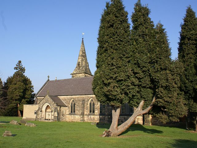 St Giles' parish church, Normanton, Derby, seen from the southeast